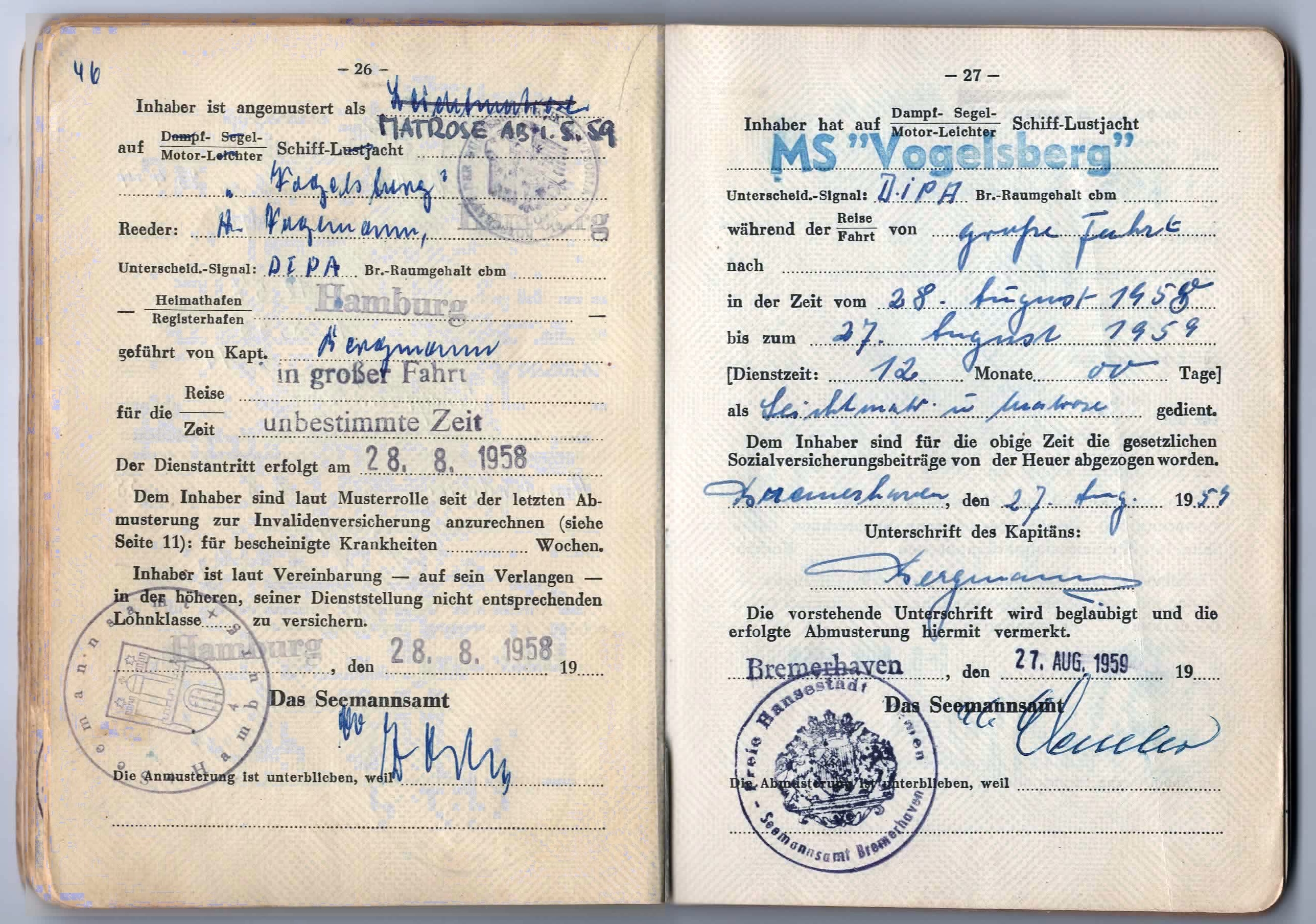 Seaman's book by a sailor (AB) of the MS Vogelsberg by the shipping company H. Vogemann, Hamburg - 1959